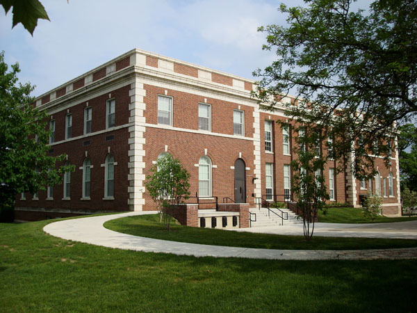 Ford Hall at Eastern Michigan University in Ypsilanti Michigan